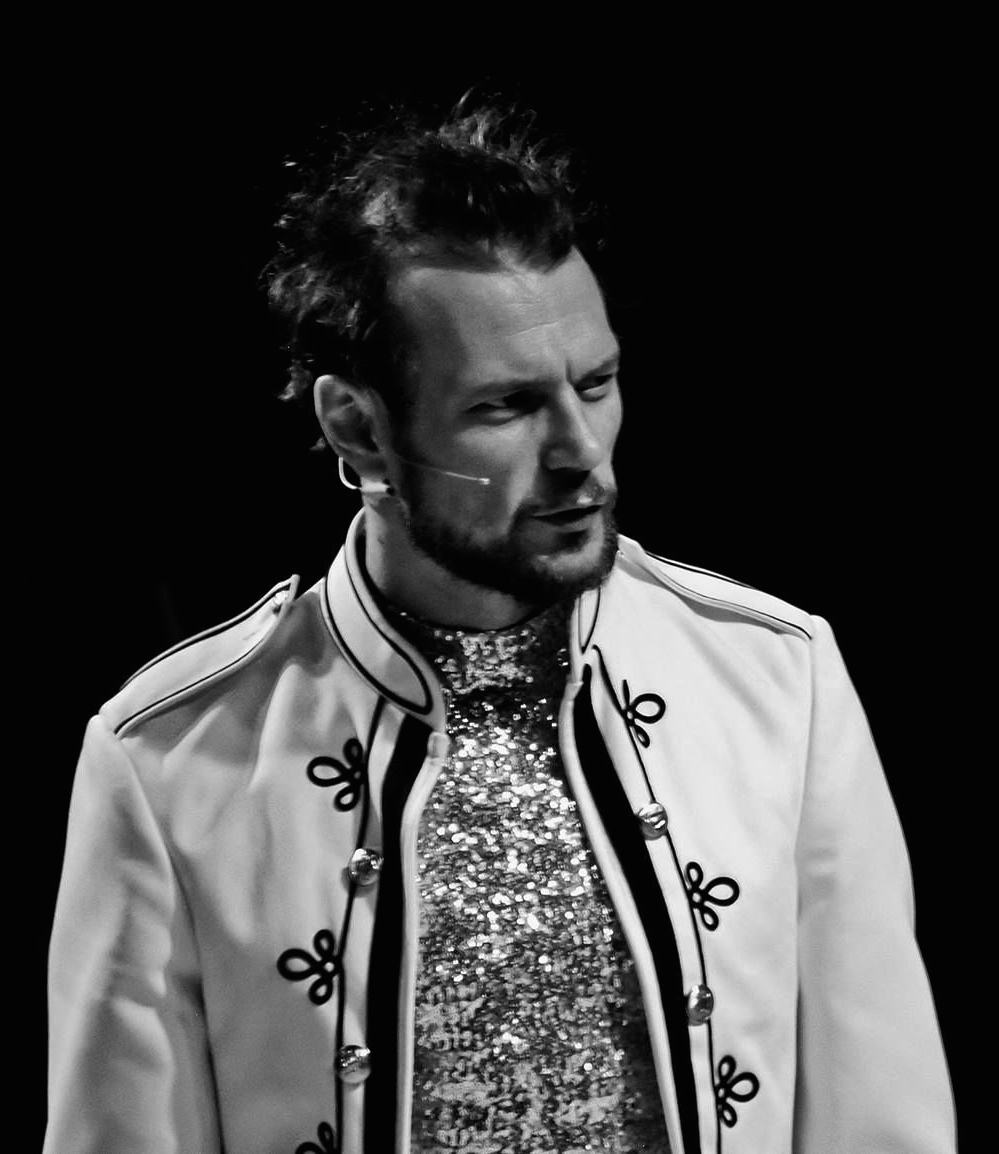 Kurt Vandendriessche in "Addio alla Fine" - Emio Greco/PC (2013)